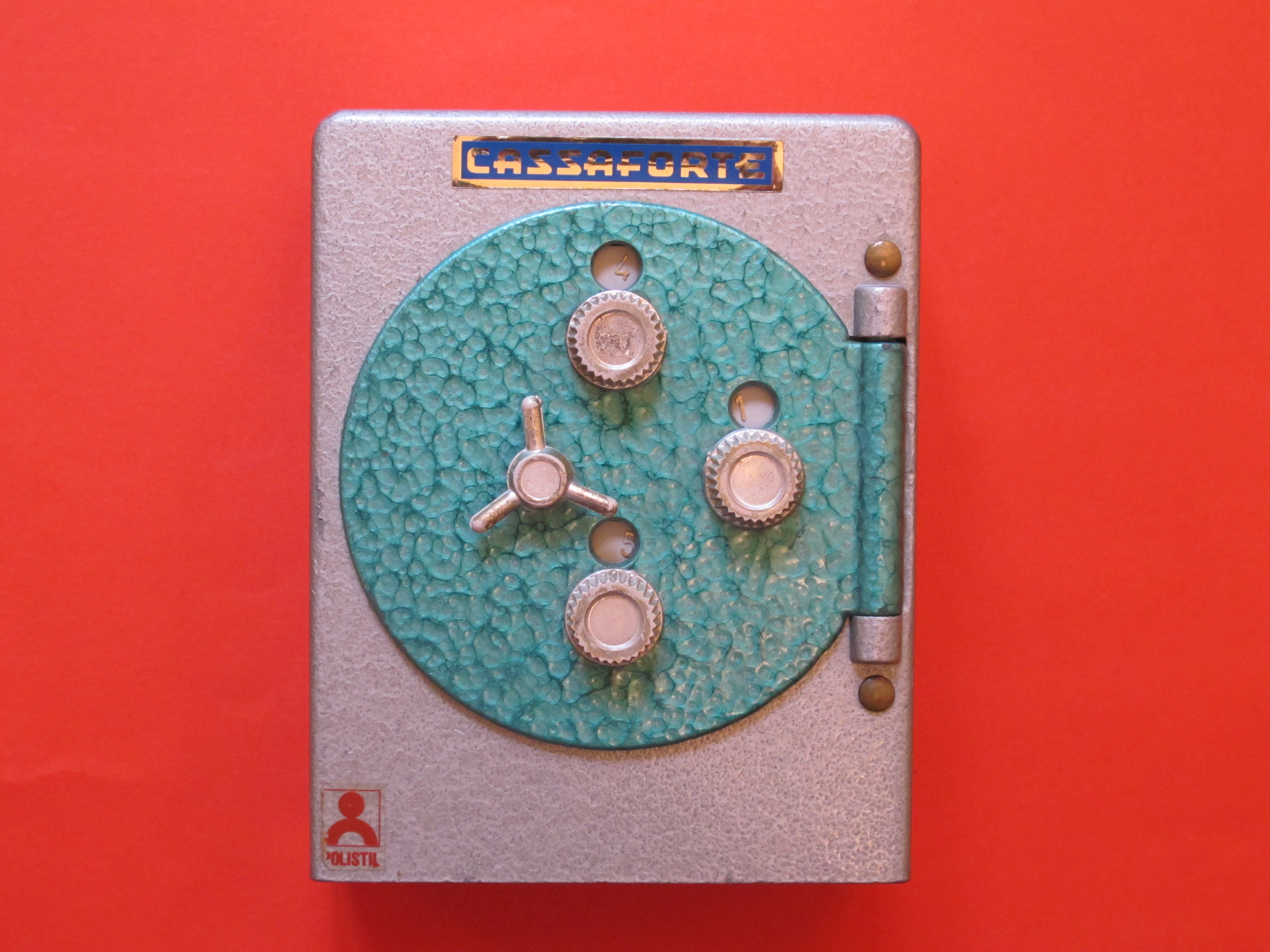 Strongbox/safe toy produced by Polistil